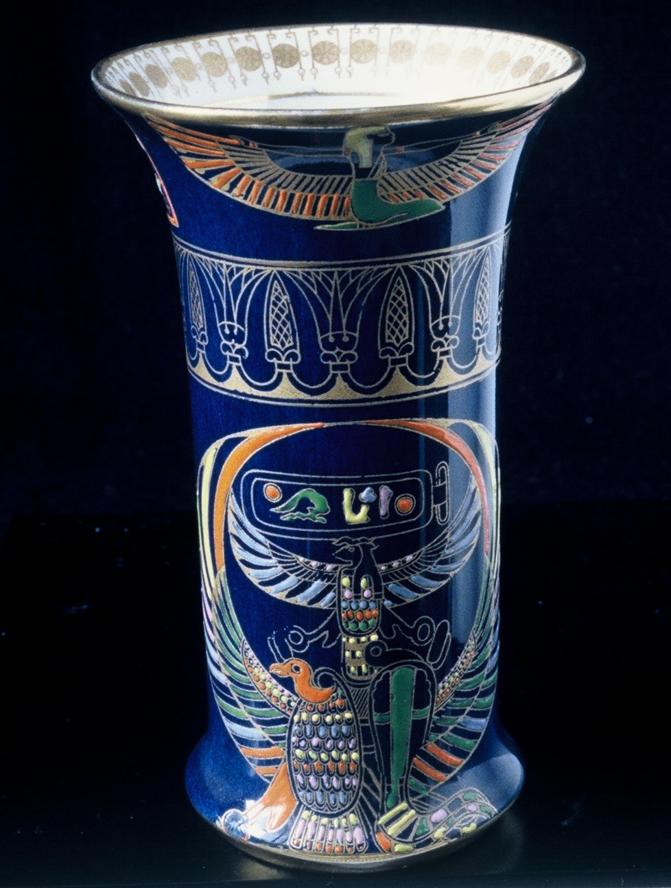 Vase, blue with Egyptian type decoration, 'Tutenkahmen (Tutankhamun) ware - Carlton ware' (packing list 19.10.95). "Vase, cylindrical, flaring lip. Interior, white glaze. Exterior black with ancient Egyptian style decoration in plychrome enamels"